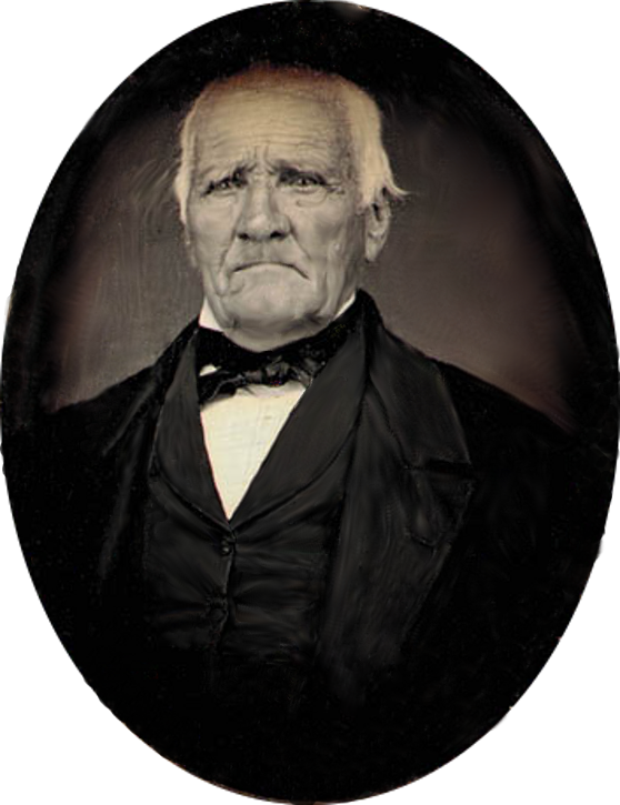 Last known photograph of Sam Houston. Sixth plate daguerreotype by an unknown dauguerreotypist (possibly by J.H. Stephen Stanley, of Houston, Texas, on or about 18 March 1863.)